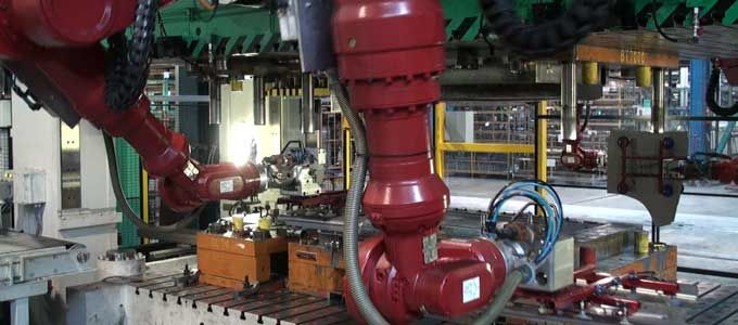 Robots on 1500 tons deepdrawing press at Witte Van Moort